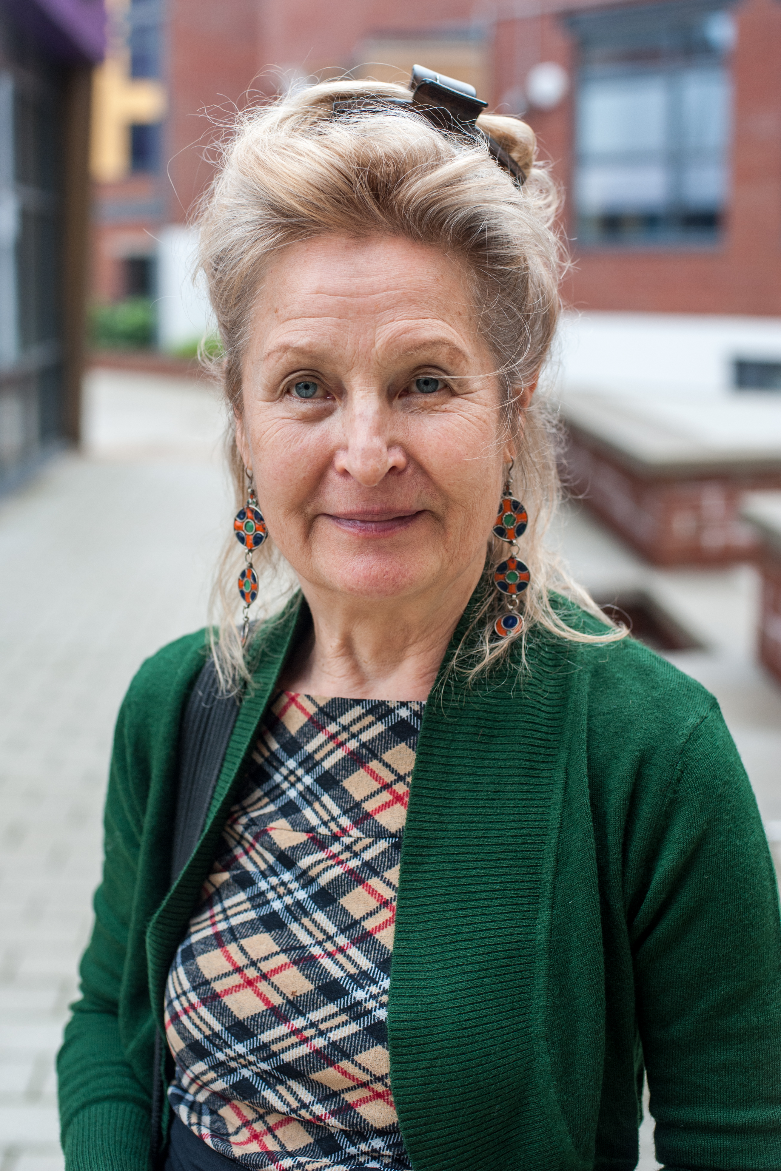 Portrait of Finnish photographer Sirkka-Liisa Konttinen in 2018